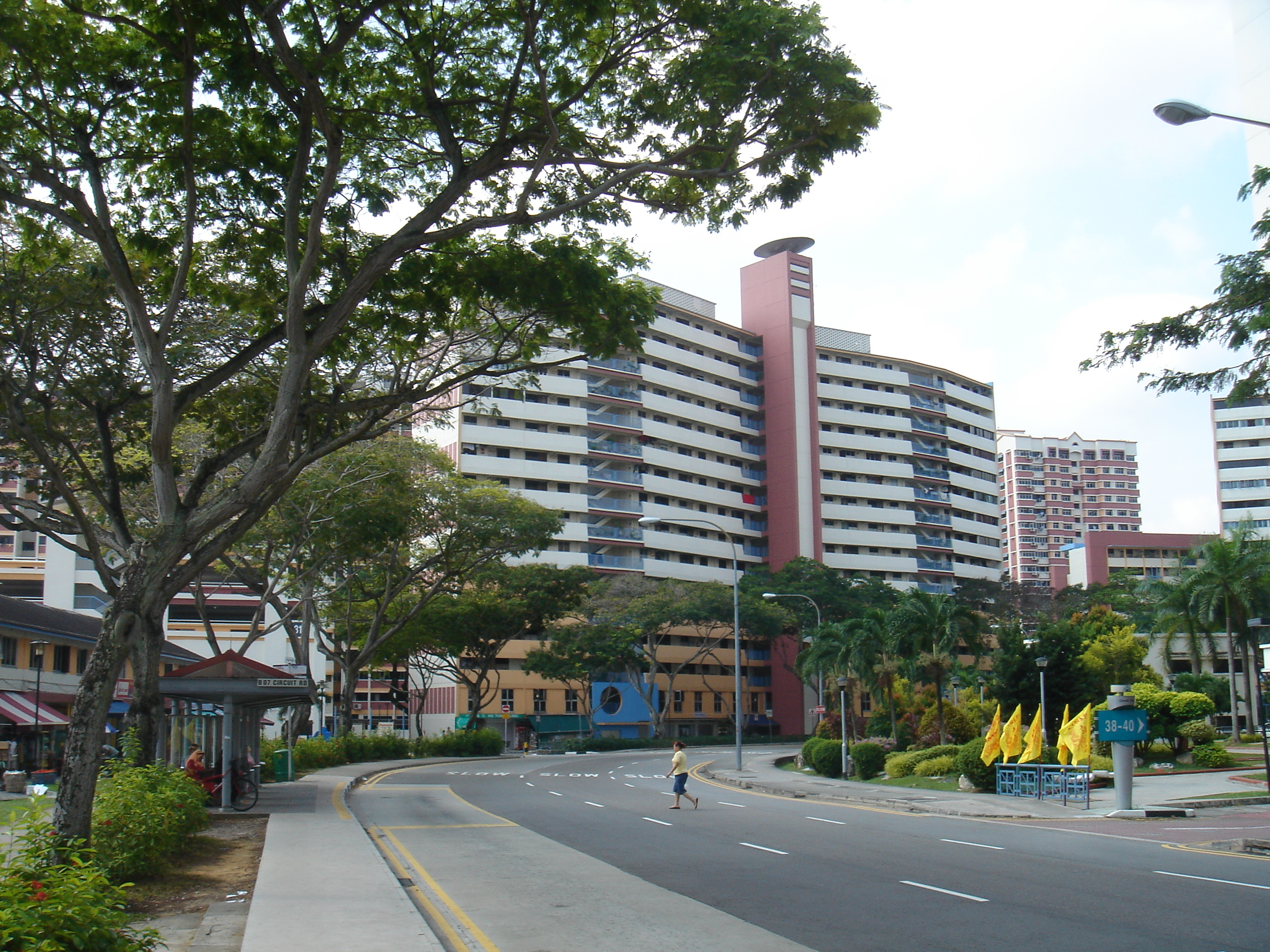 Housing Estate at Circuit Road, MacPherson, Singapore.